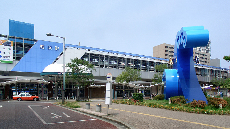 Fukuoka City Transportation Bureau Meinohama Station. The south exit.